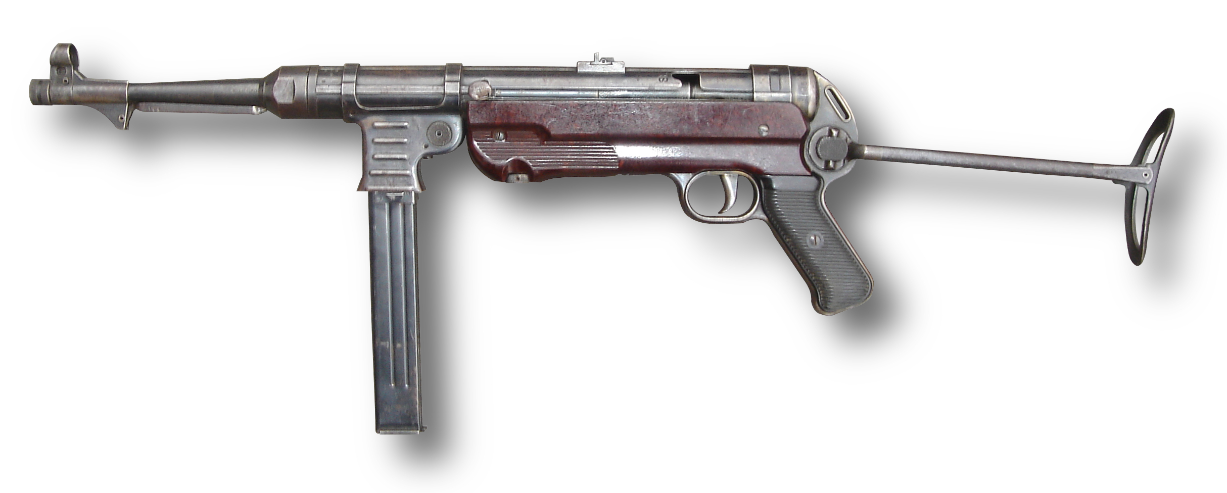 MP40 — Erma, 1943 manufacturing, extended stock.